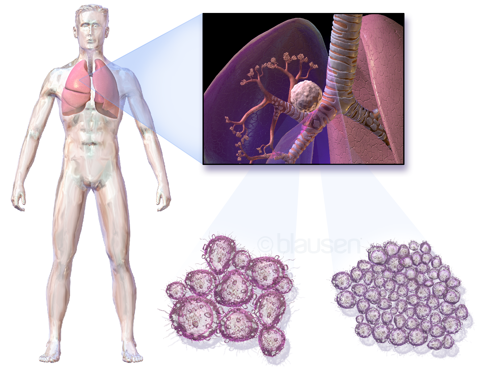 Lung Cancer. See a full animation of this medical topic.